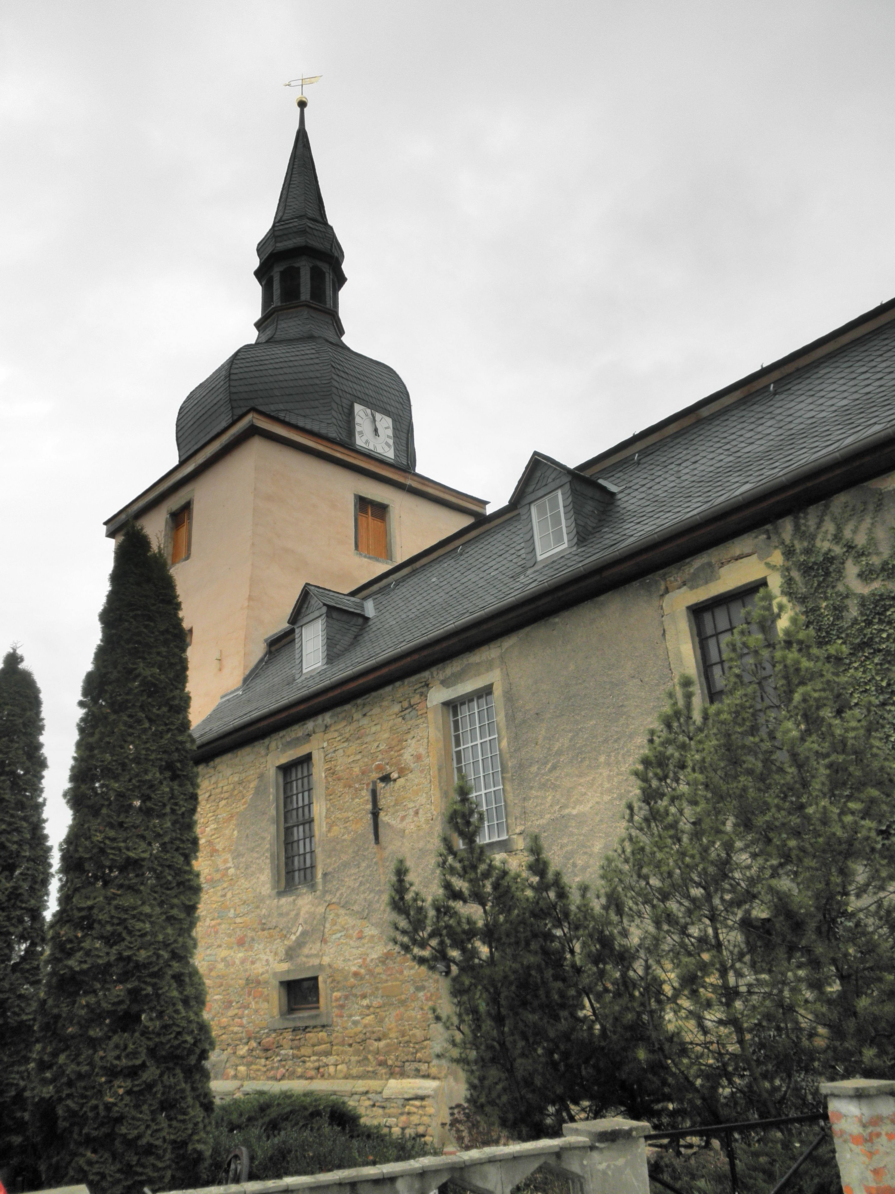 Church in Wenigensömmern (Sömmerda) in Thuringia